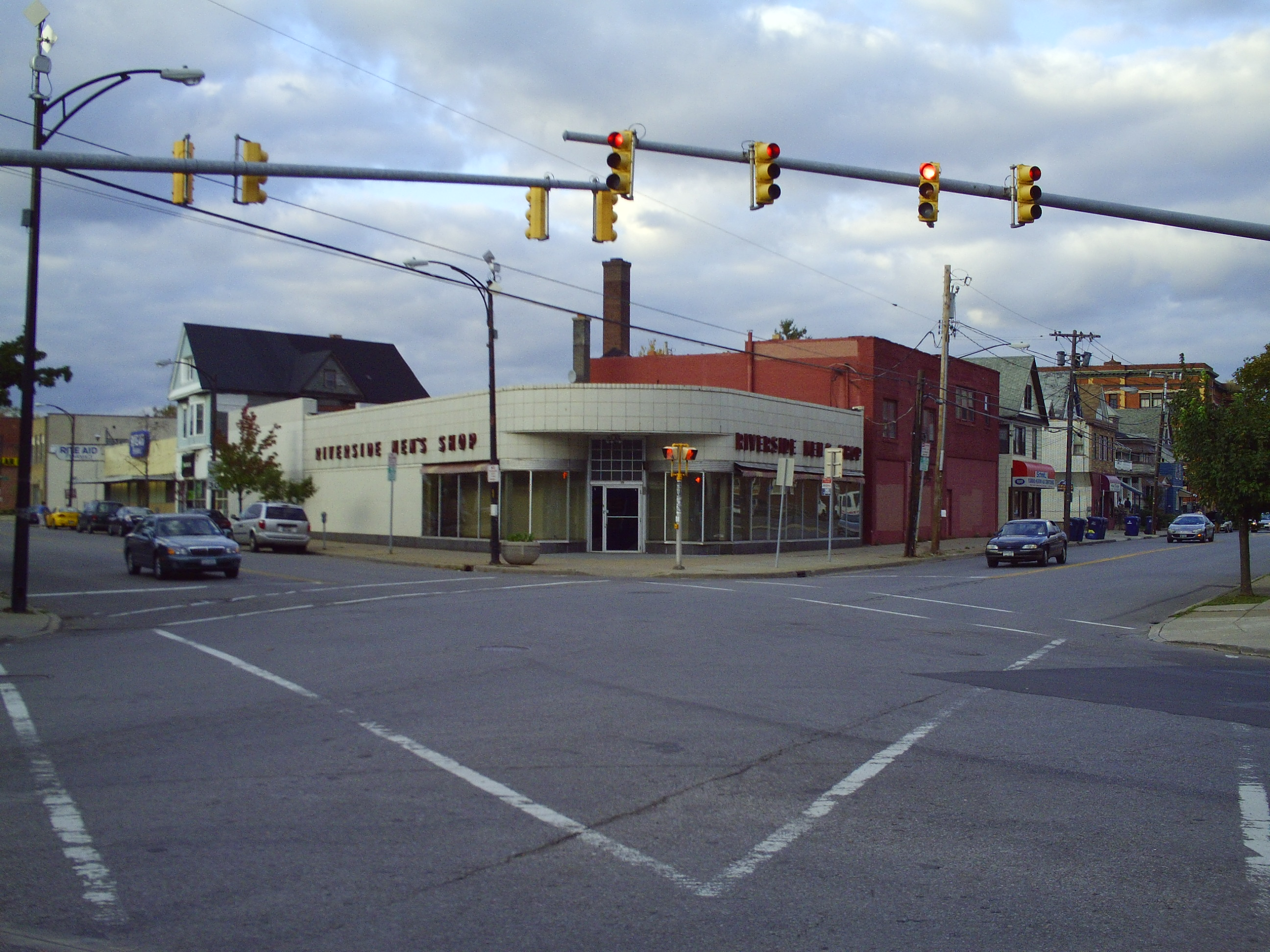 Picture of the old building that Riverside Men's Shop used to be in. Taken from a diagonal from the building.